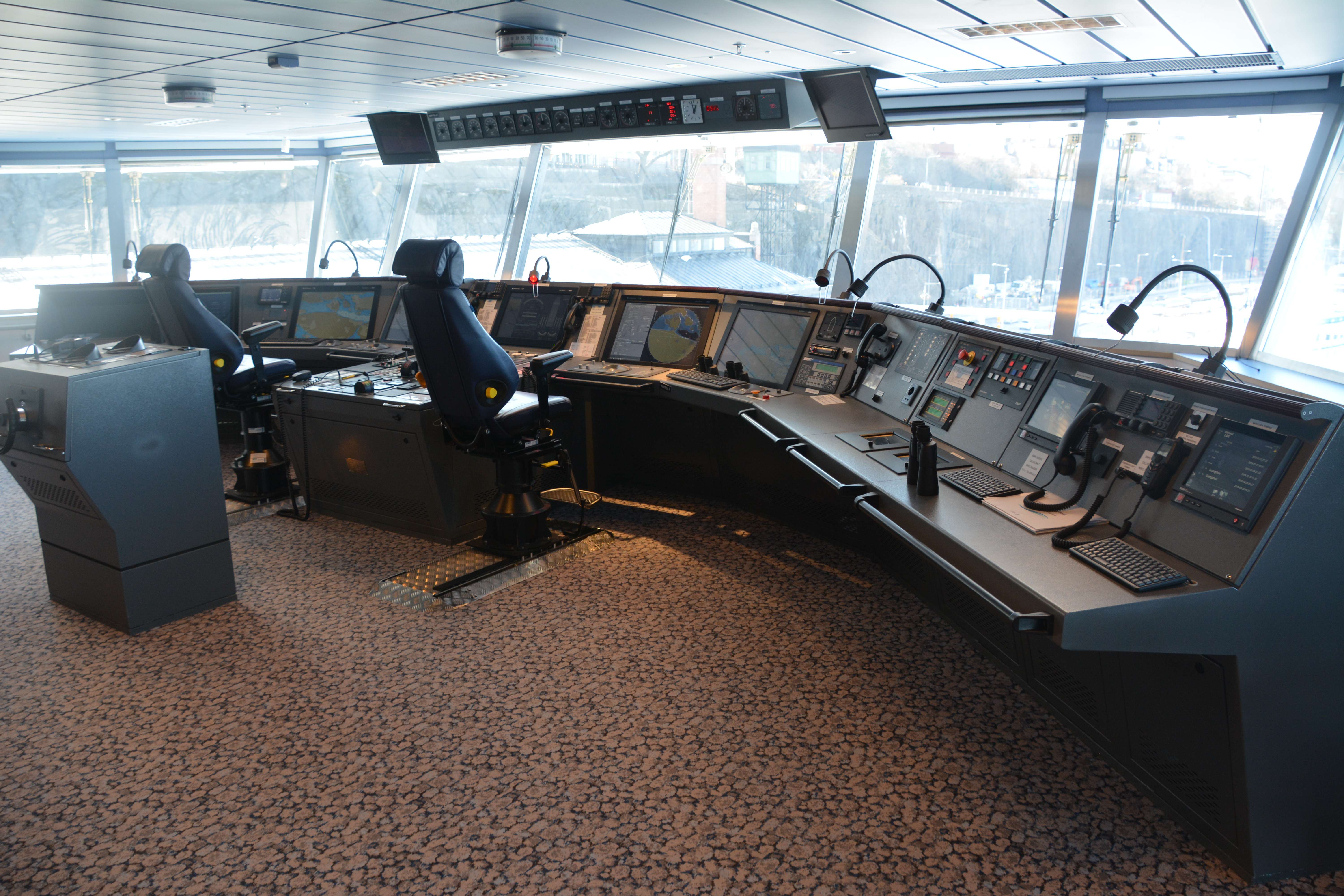 Bridge of M/S Visborg